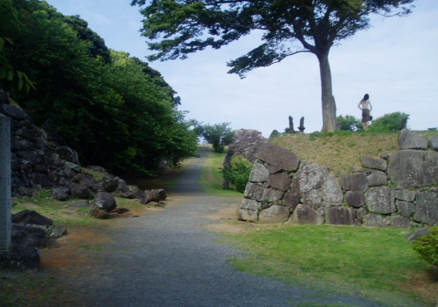 NagoyaC Otemon photo by Aboshi